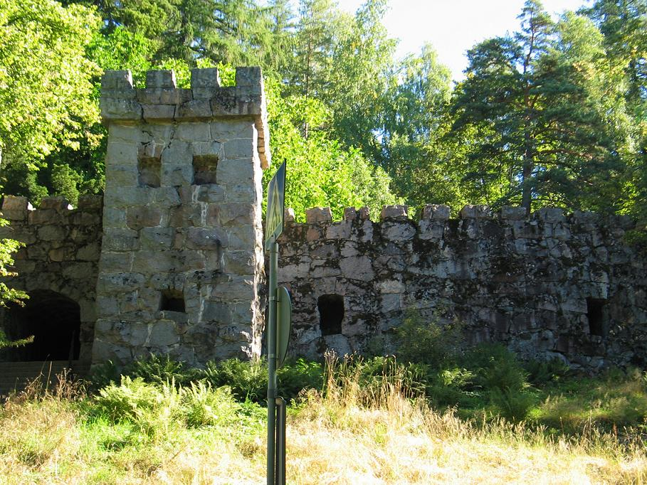 old artificiel castel in the Aulanko Nature Reserve next to Hämeenlinna